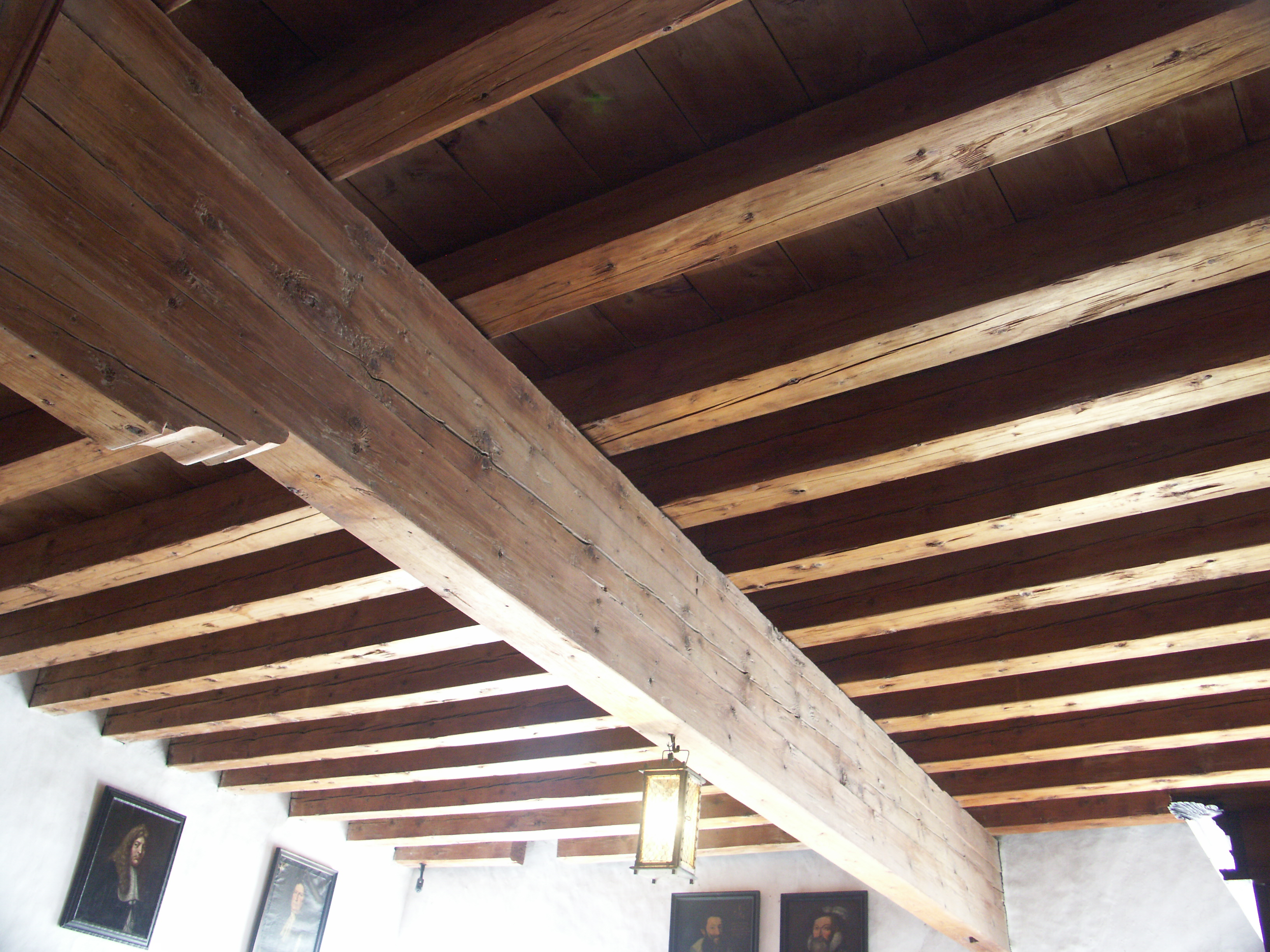 Werdenberg castle. Hall in the second floor.